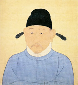 Portrait of Yi-Ji-ran